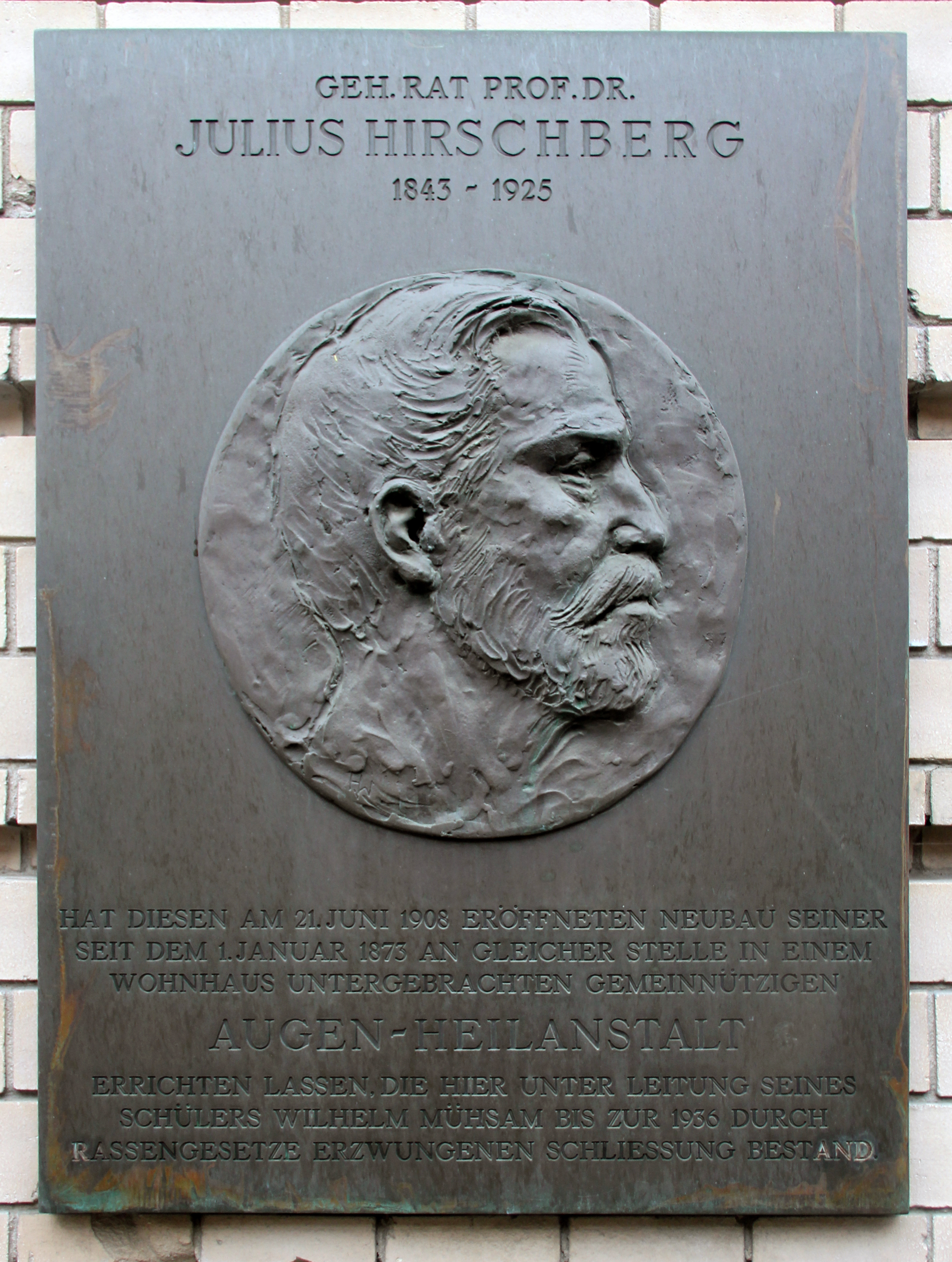 Memorial plaque, Julius Hirschberg, Reinhardtstraße 34, Berlin-Mitte, Deutschland